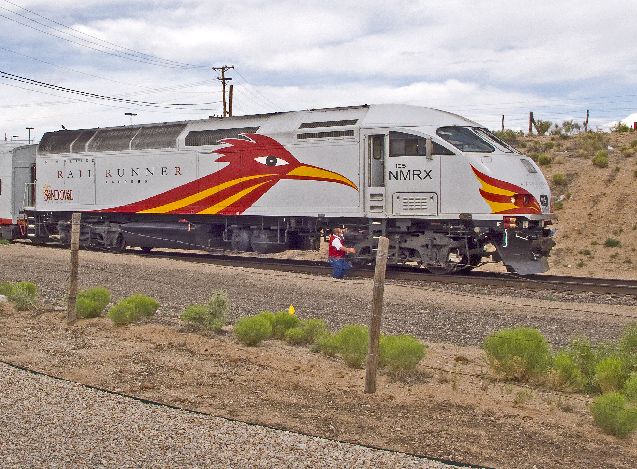 The New Mexico Roadrunner is a train that runs from Belen to Santa Fe